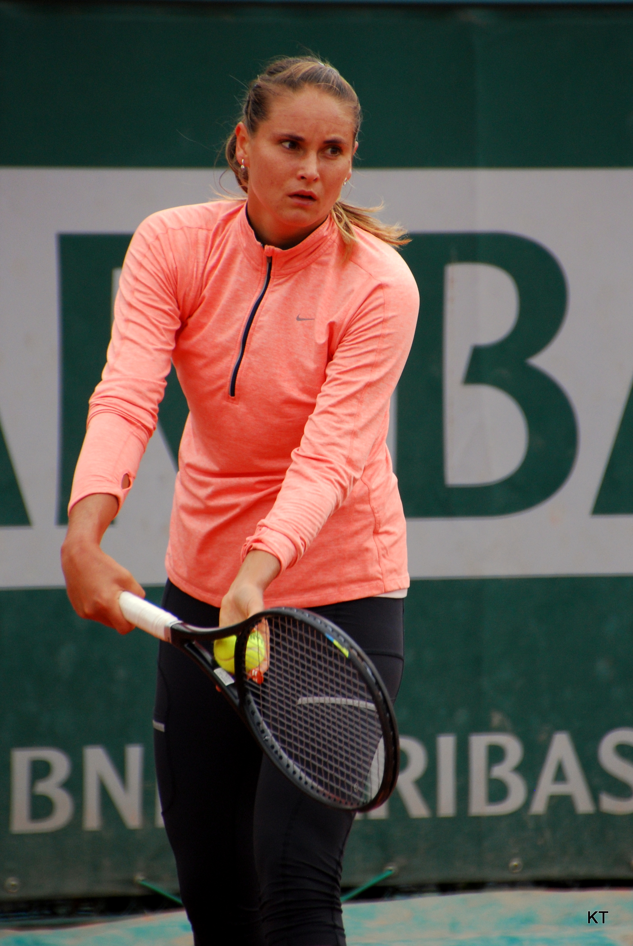 On the practice court. Day 4 of Roland Garros 2014.